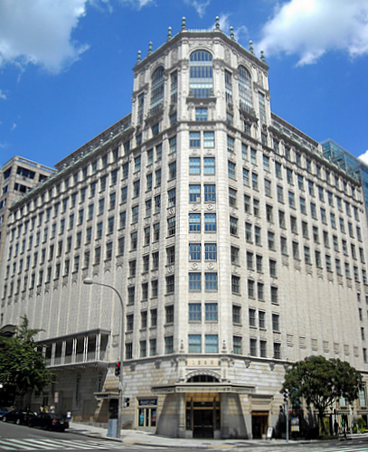 Warner Theatre at 1299 Pennsylvania Avenue NW in the Penn Quarter neighborhood of Washington